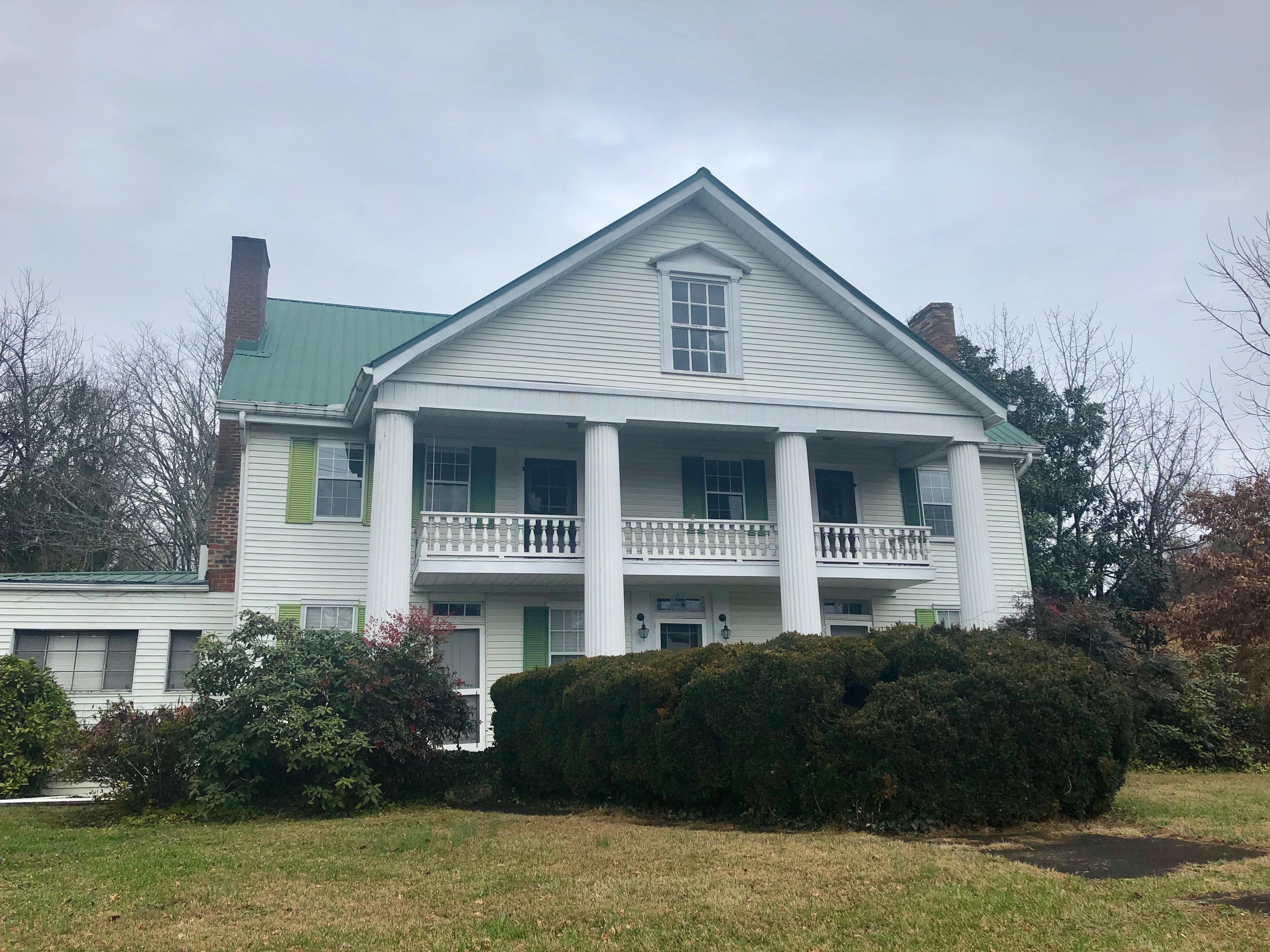 Constructed between 1819 and 1830 for prominent early Franklin resident Jesse R. Siler in the Georgian, Federal, and Greek Revival styles.